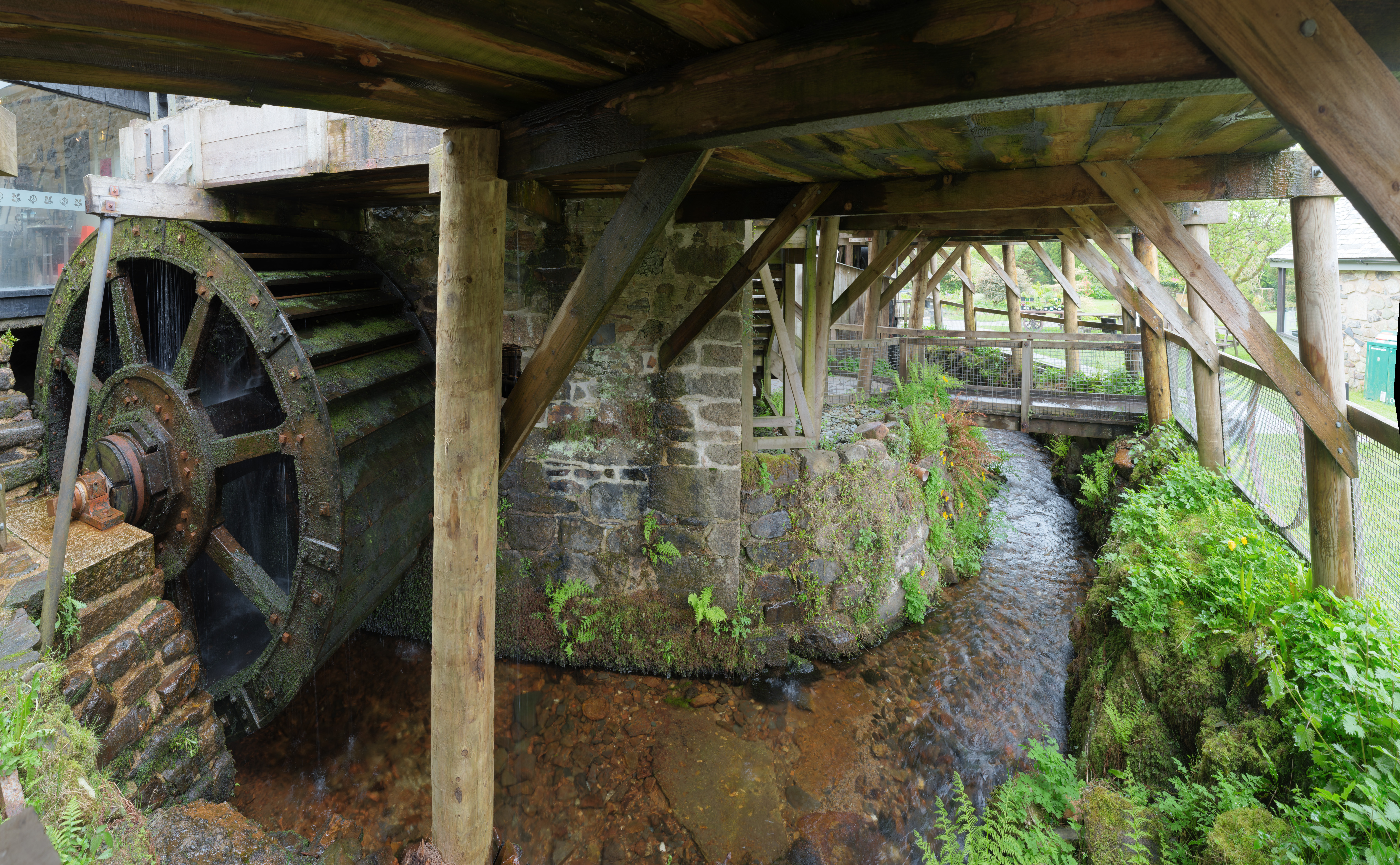 A panoramic view of the water wheel that powering the foundry machinery at Finch Foundary in Devon, UK.